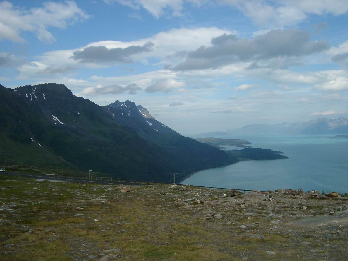 View over the fjord Kvænangen in Troms, Norway